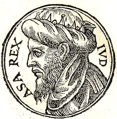 Asa of Judah was the third king of the Kingdom of Judah and the fifth king of the House of David.